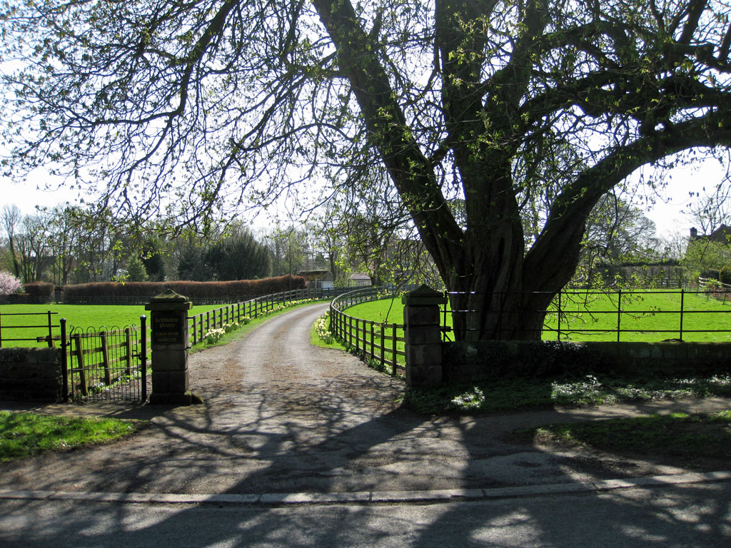 Entrance to Keldholme Priory